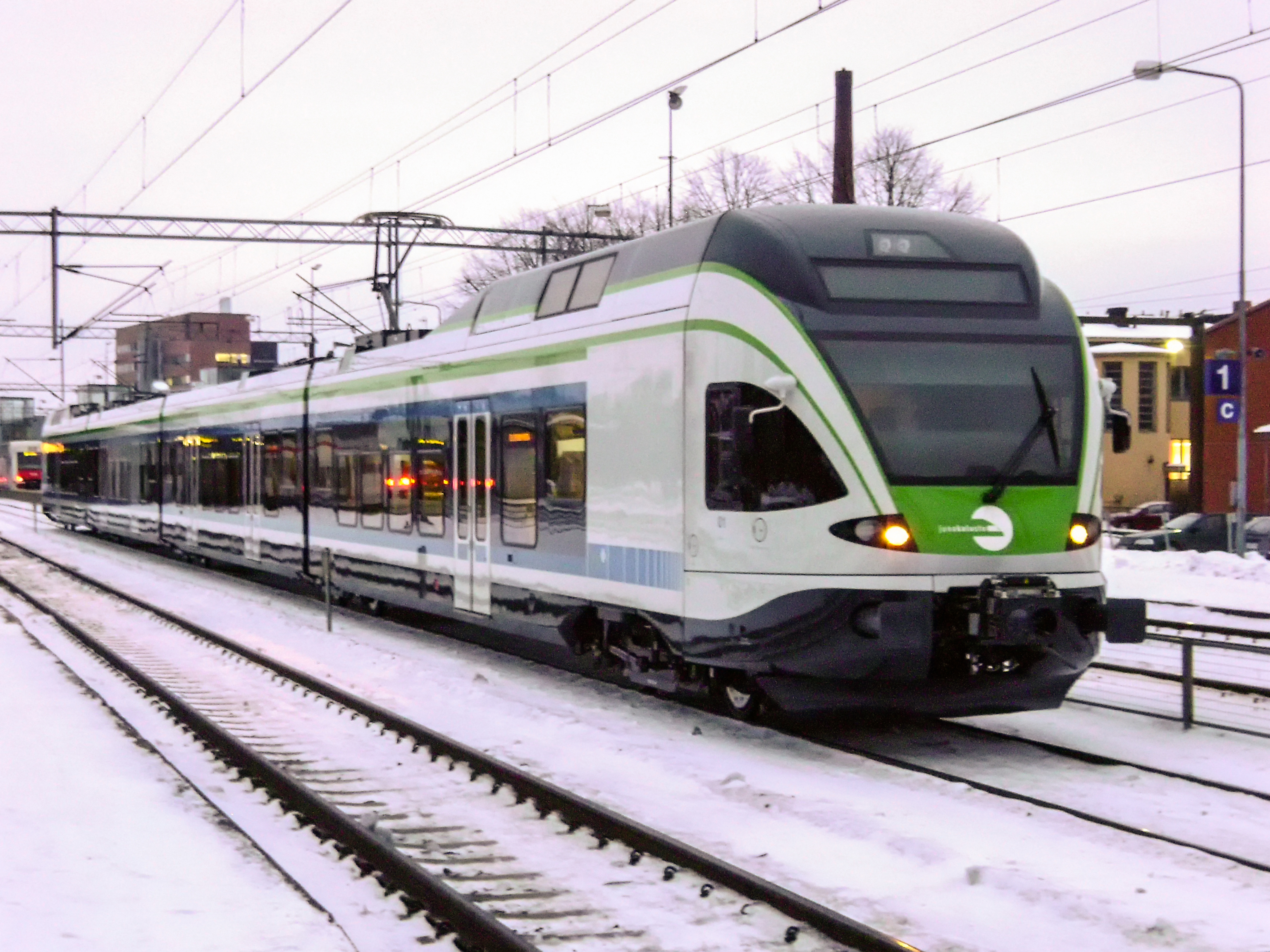 Sm5 class EMU (Stadler FLIRT) in Riihimäki, Finland on trial run.